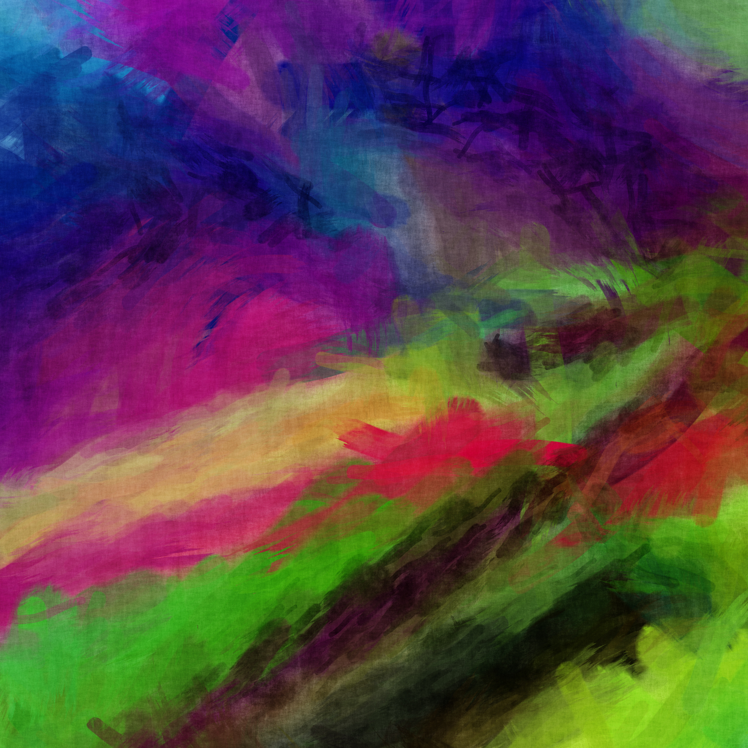 abstract art